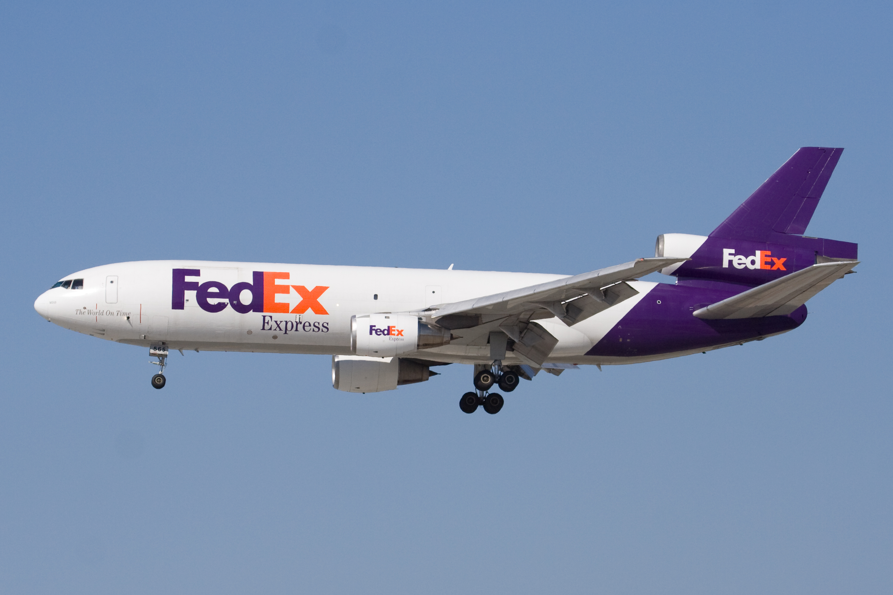 A FedEx Express MD-10 landing at San Jose International Airport